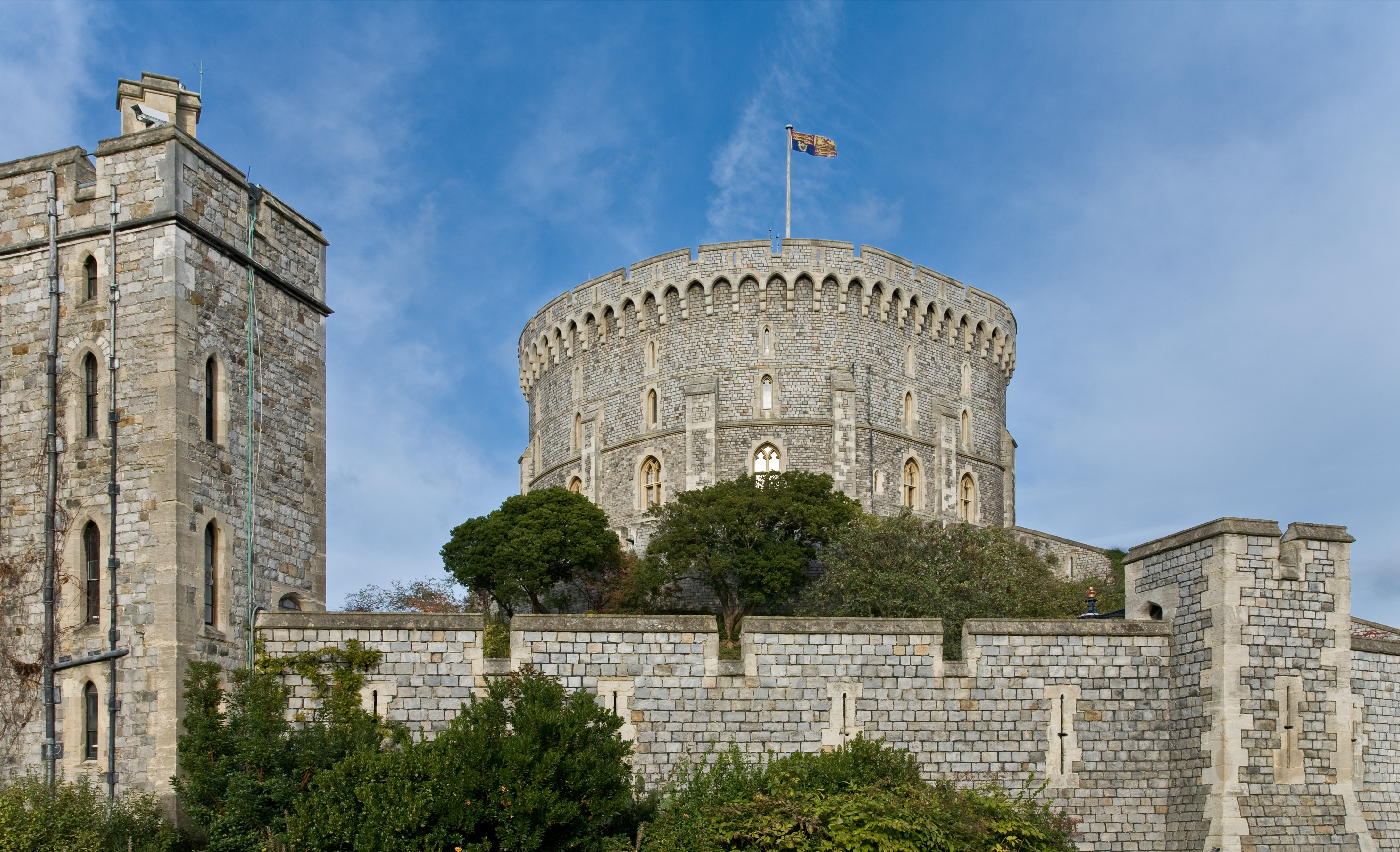 The Round Tower in Windsor Castle in Windsor, England. Taken by myself with a Canon 5D and 24-105mm f/4L IS lens.